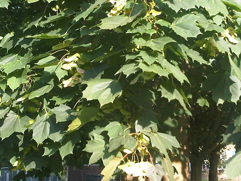 Norway Maple Acer platanoides leaves and seeds in Putney Heath Common, England.